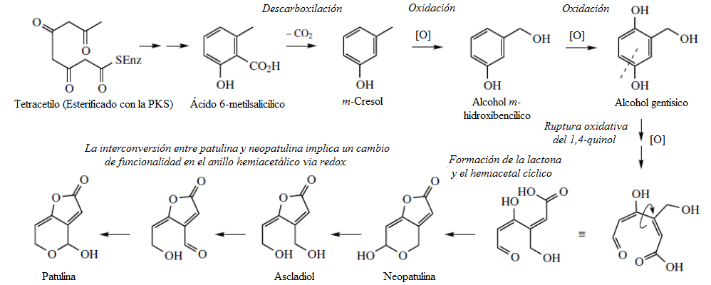 Patulin biosynthesis scheme